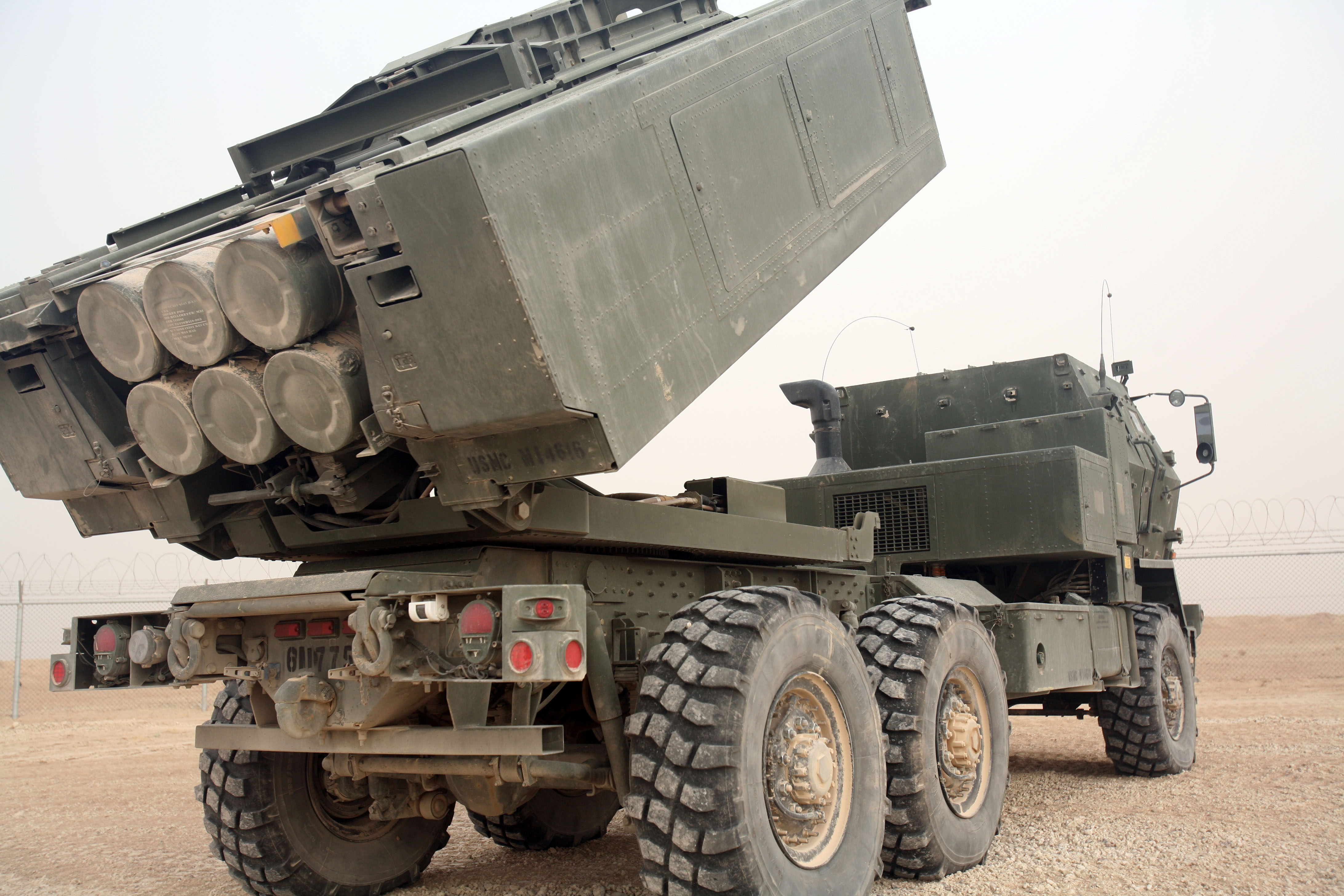 High Mobility Artillery Rocket System is prepared for a dry fire session in Iraq to test its firing capabilities.